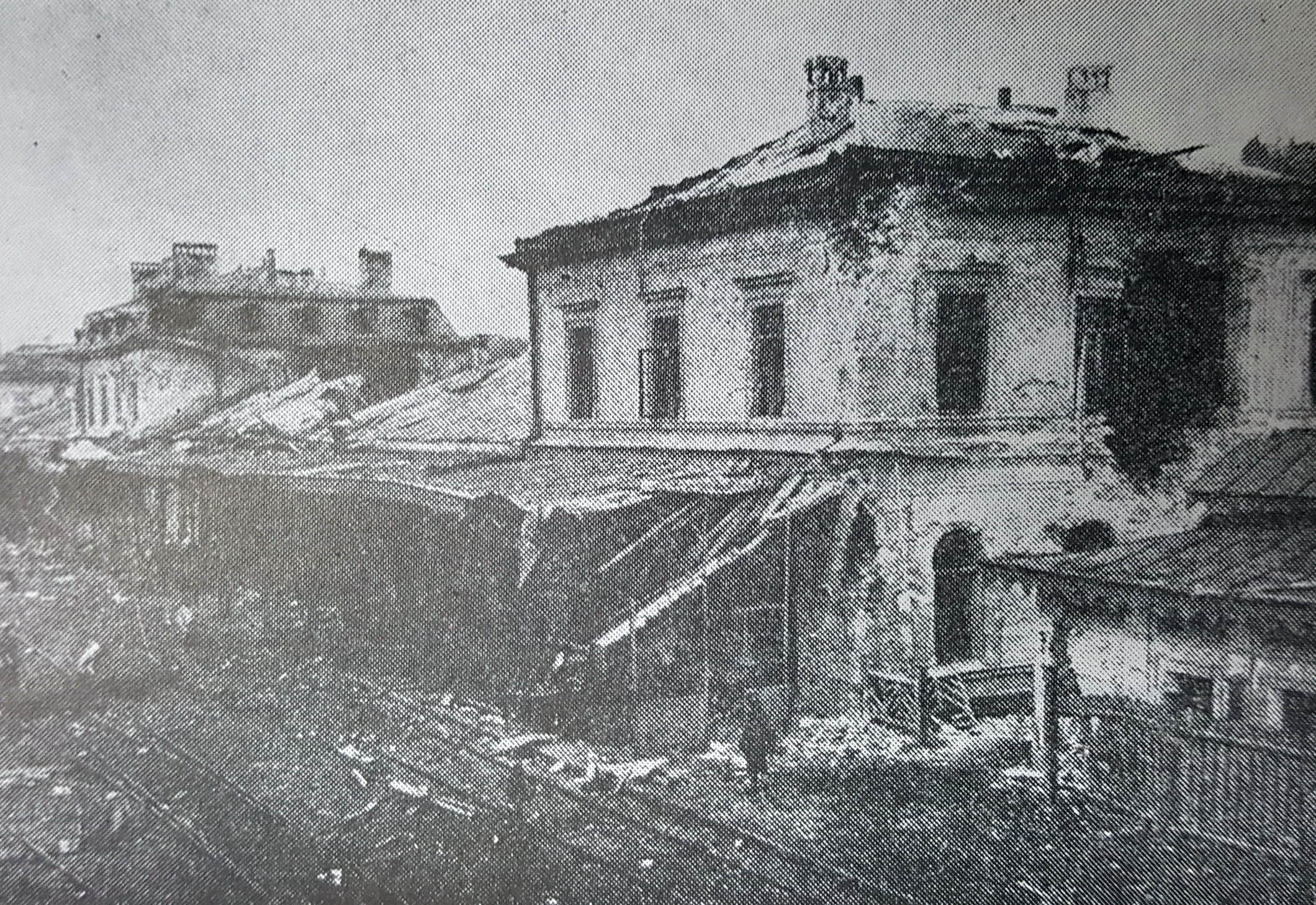 The Predeal railway station in Romania, destroyed by bombardment from the Central Powers during the 1916 campaign in the First World War.